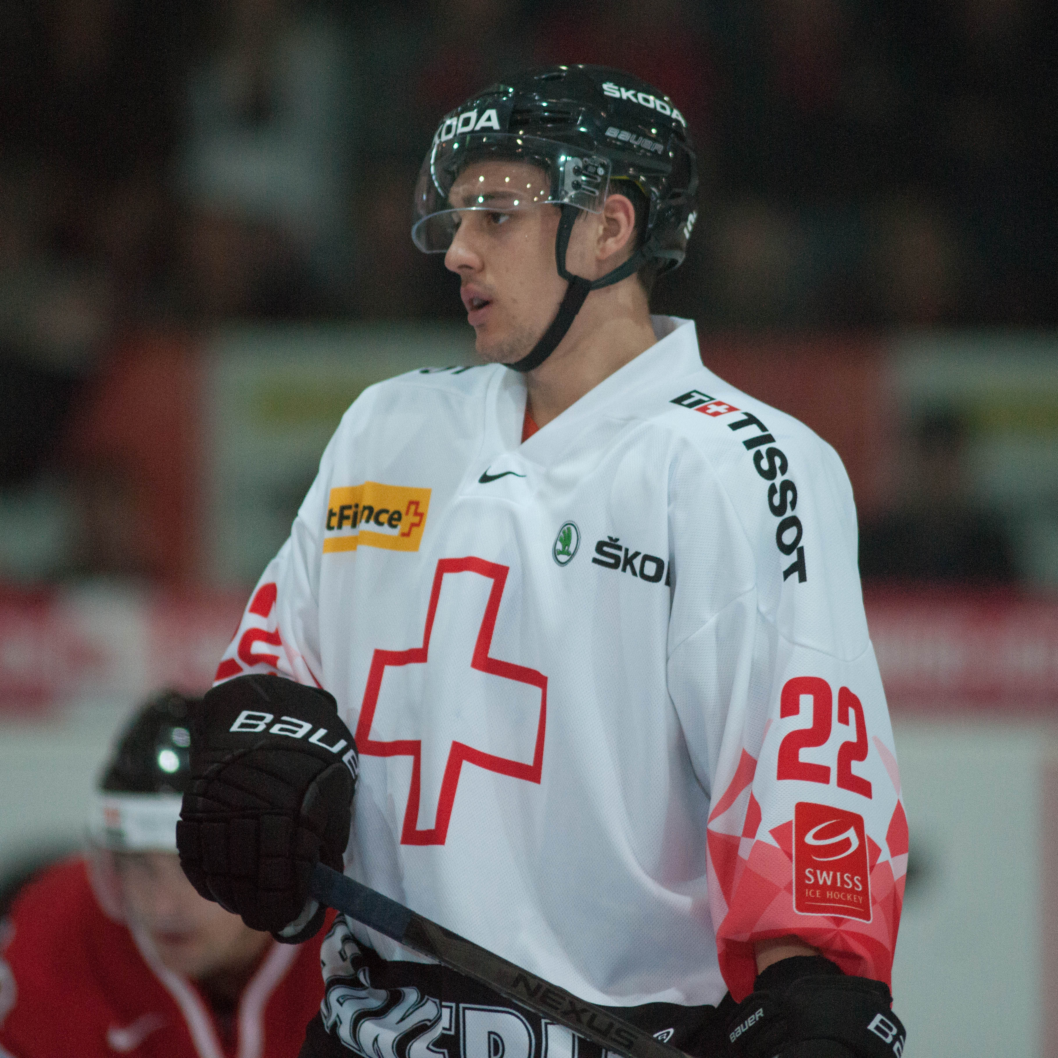 Switzerland vs. Canada, 29th April 2012